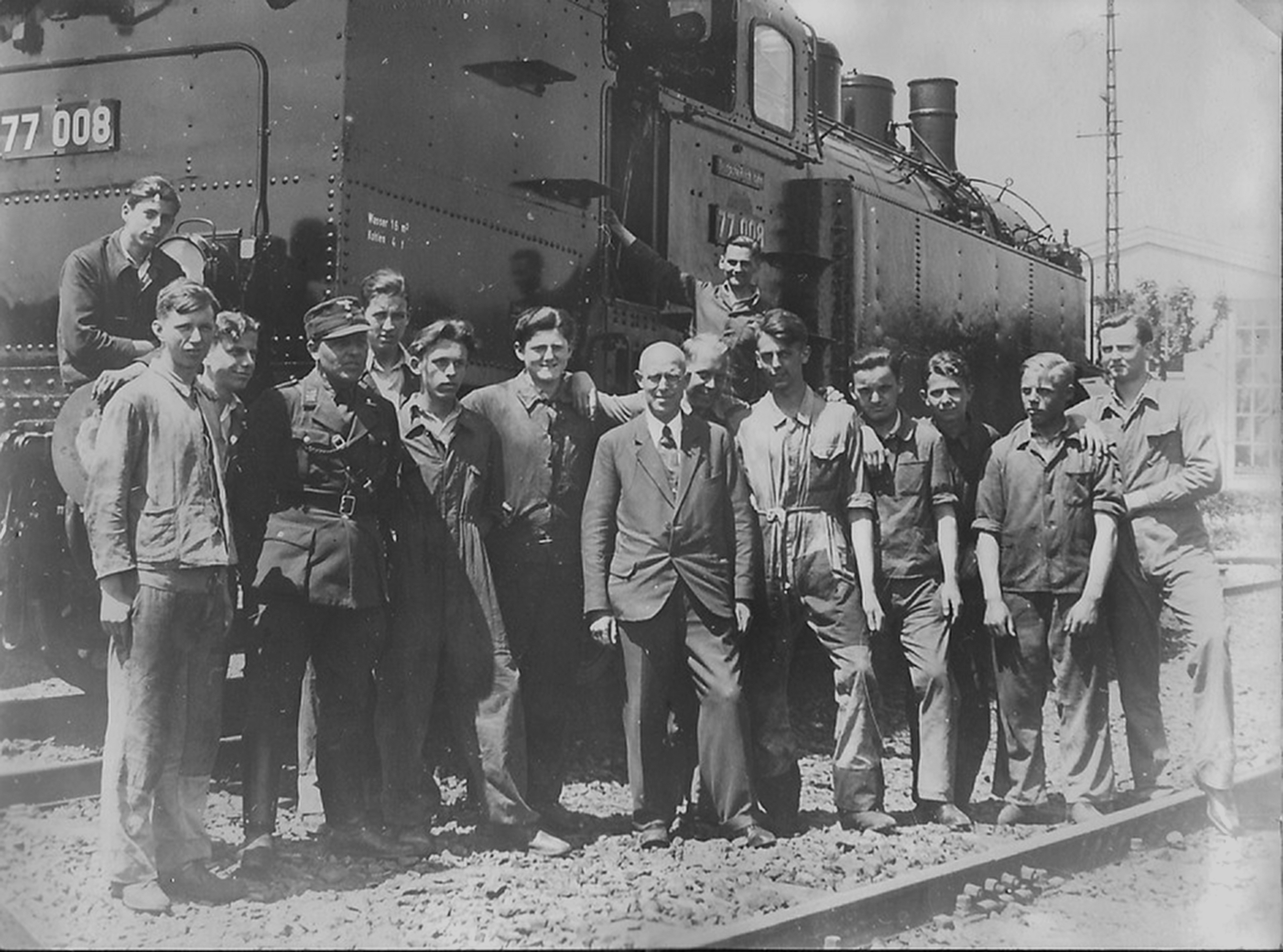 DRG steam locomotive 77 008 at main railway workshop RAW Frankfurt-Nied.